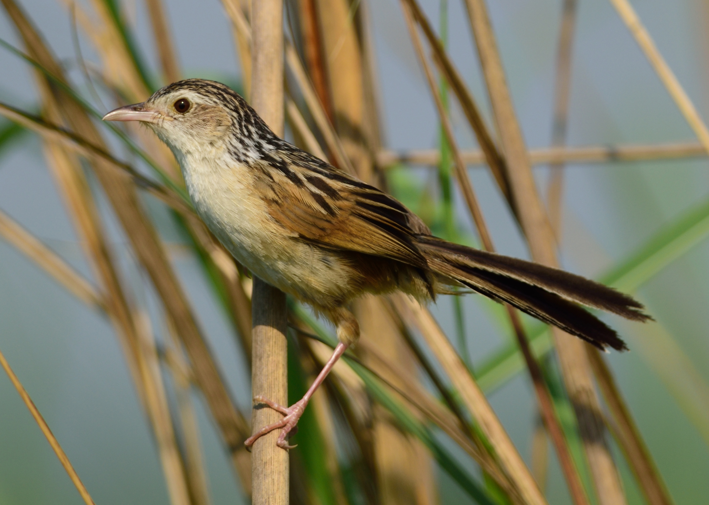 Indian Grassbird Wiki Loves Birds Nepal (cropped).